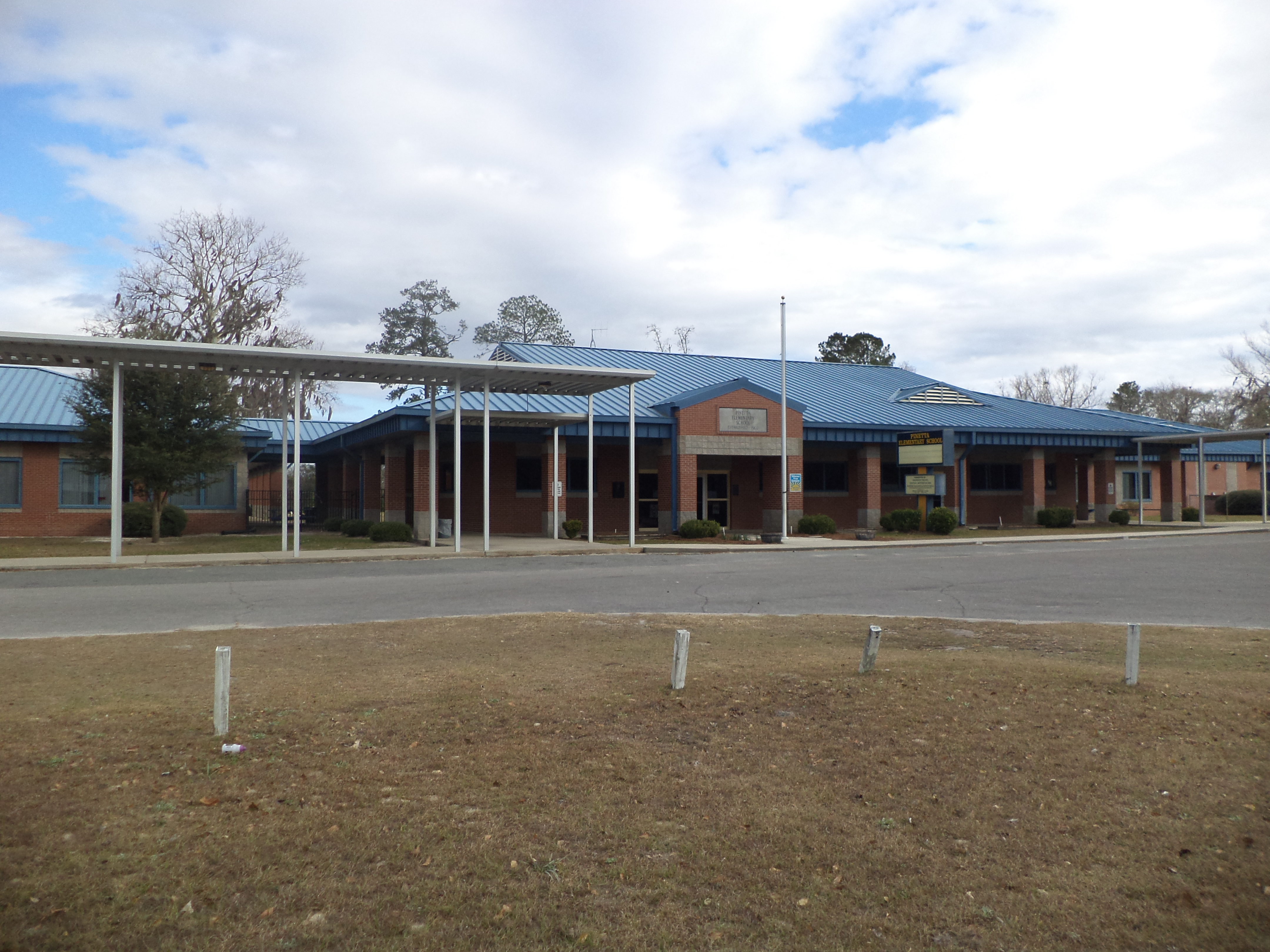 Pinetta Elementary School, 135 Empress Tree Ave, Pinetta, Madison County, Florida